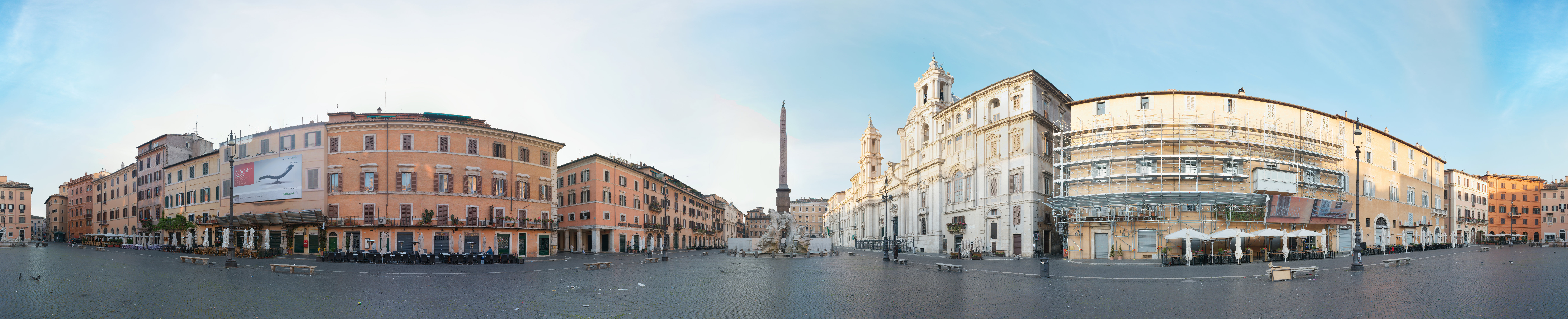 360° panoramic view of the northern part of Piazza Navona 360°View in 360° panoramic viewer